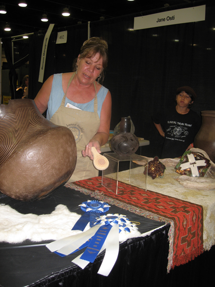 Jane Osti (Cherokee Nation) showing how paddle-stamping is used on pottery. Oklahoma.